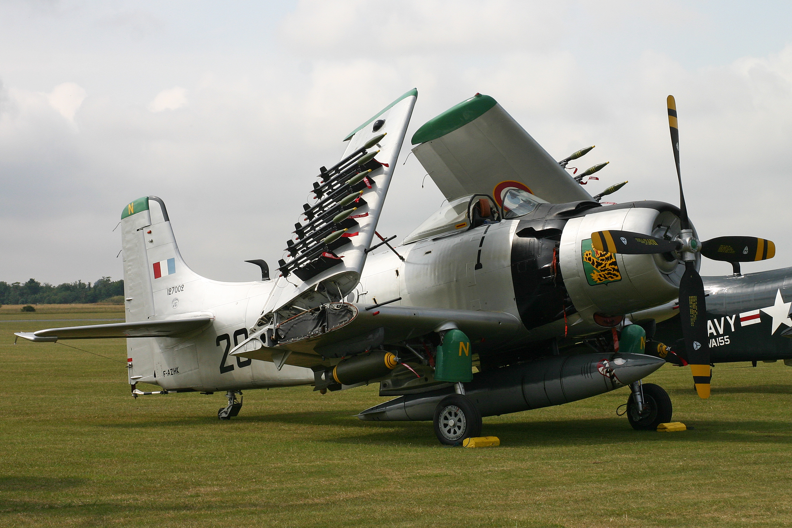 Saw military service with French AF as '61' and the Gabonese AF as '127002'. 127002 is also it's genuine allocated US Navy serial. Note the full underwing stores. msn 7802. Parked on the grass flightline. Flying Legends 2011. Duxford. 10-7-2011